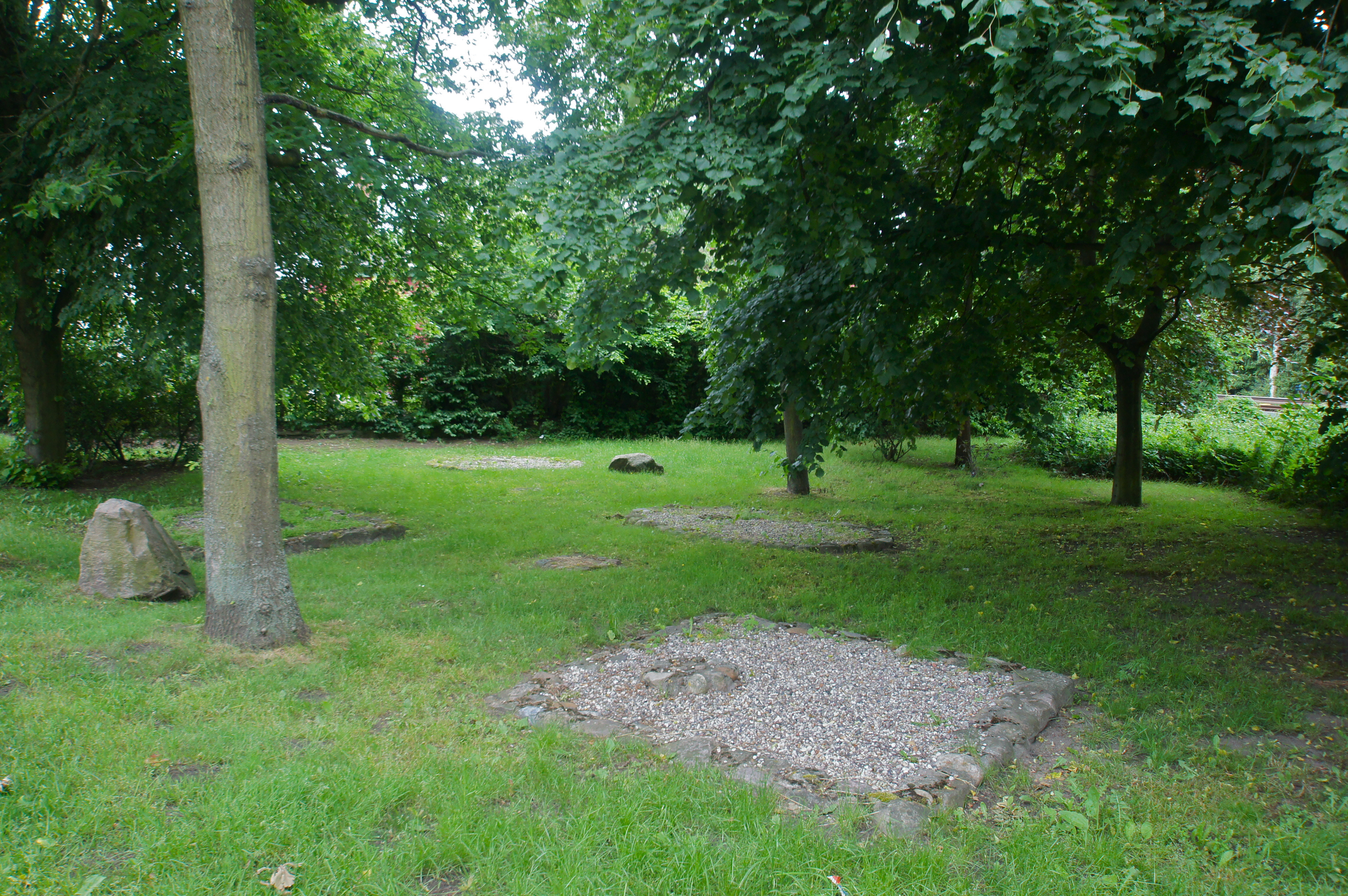 Hamburg (Sülldorf), Germany: Urnfield